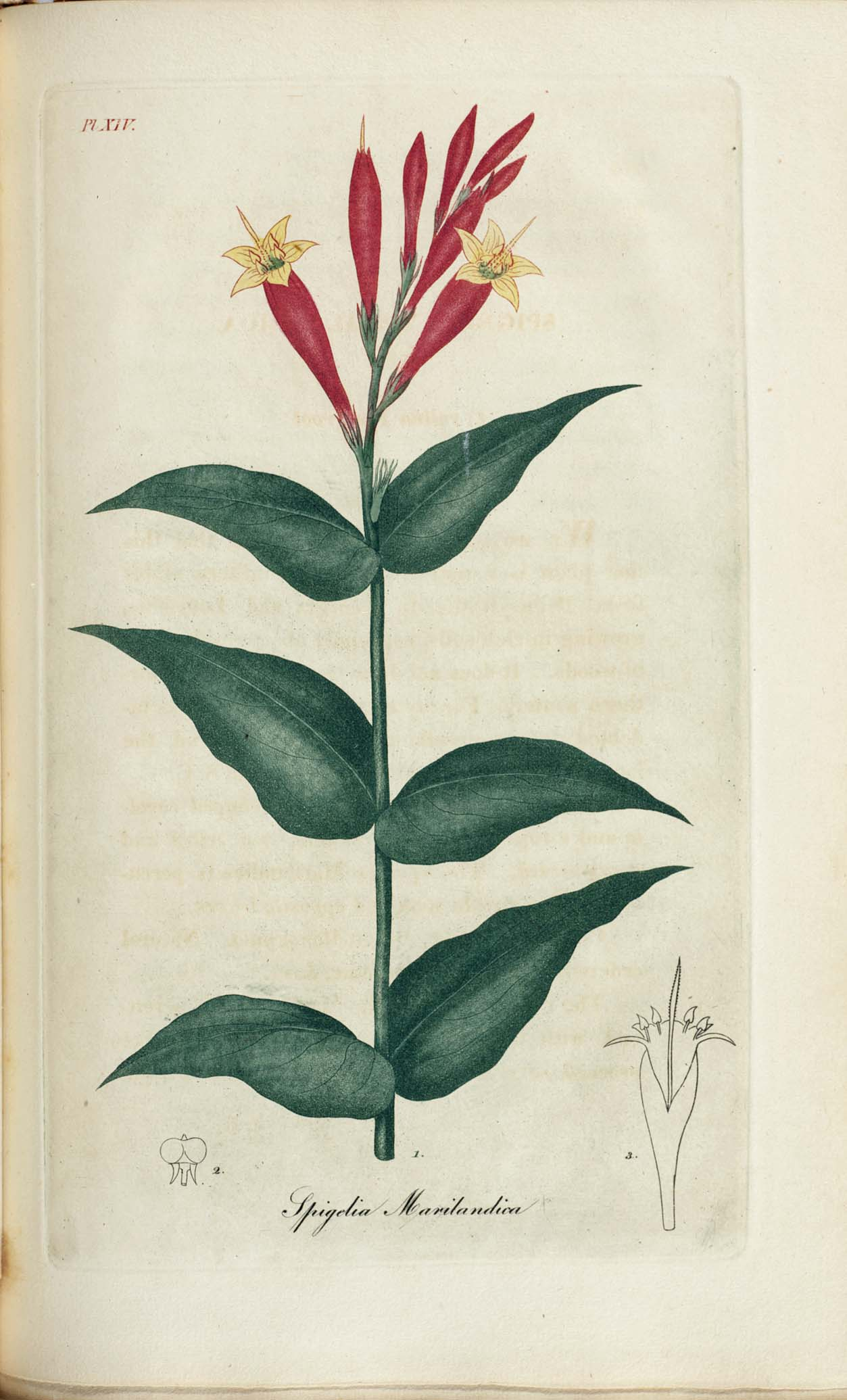 Plate XIV To view the entire book, please visit American Medical Botany.